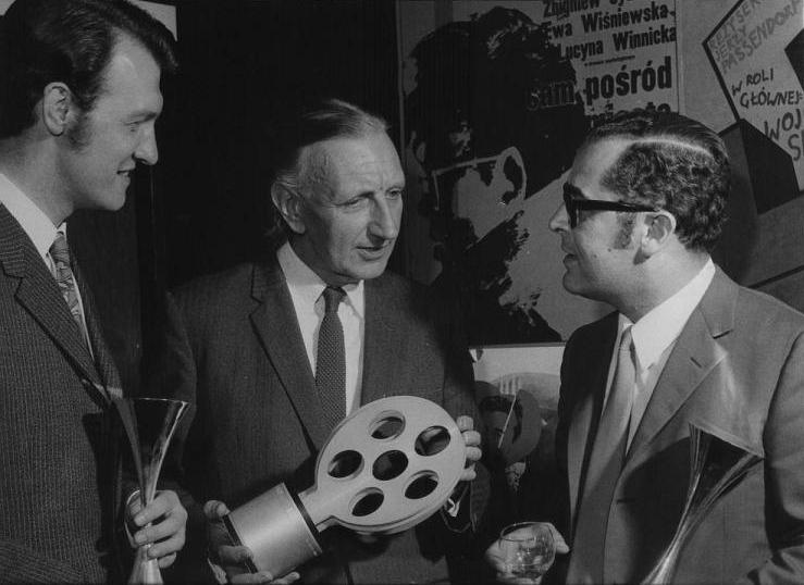 Cecil Satariano receiving an award.